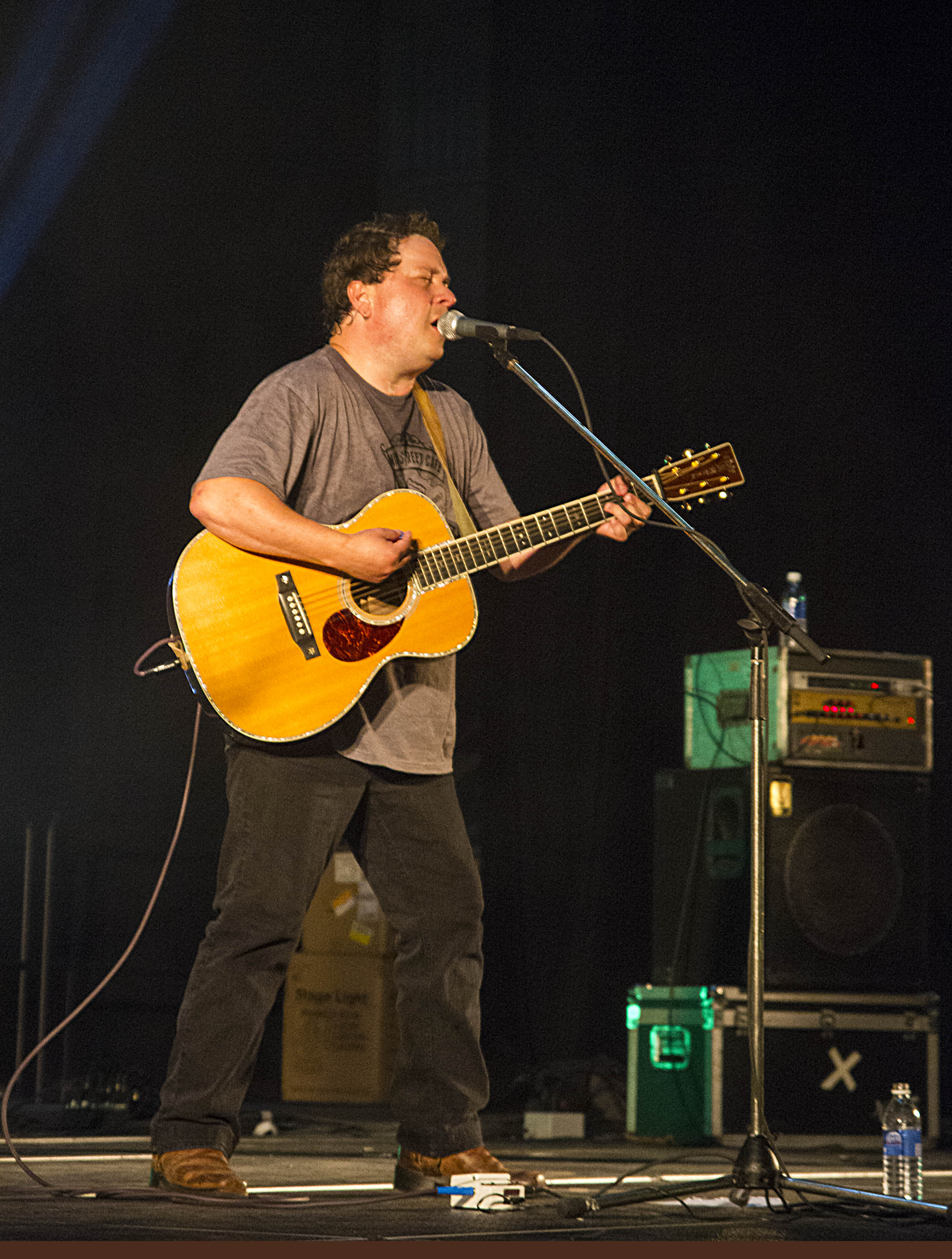 Gordie Sampson performing at Granville Green concert series in Port Hawkesbury NS. Aug 9th 2015.